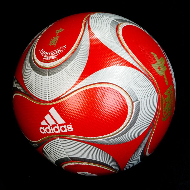 Teamgei2t Magnus Moenia - this was the official match ball used at the Olympic games in Summer 2008 at Peking. The chinese signs on its side mean "China".